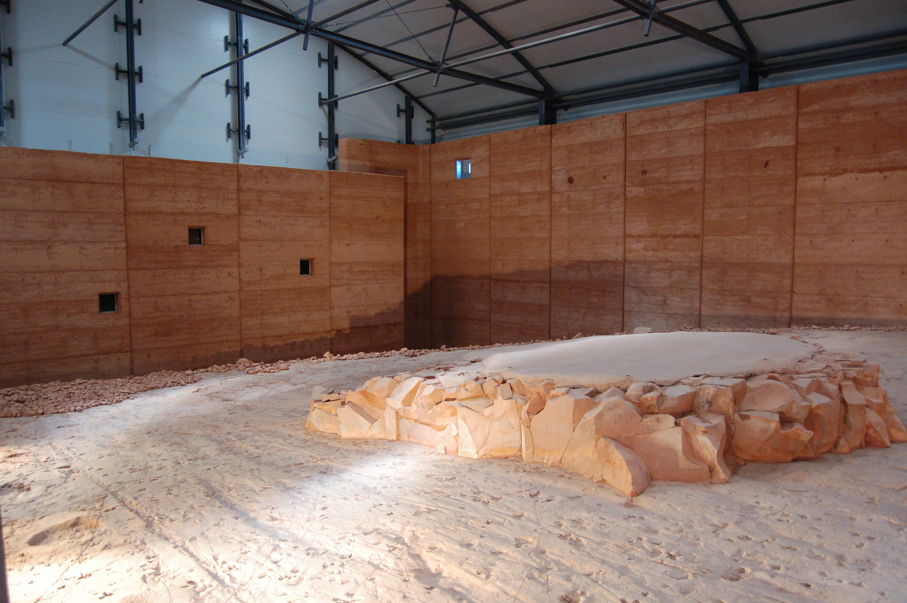 Dinosaur tracks at Lark Quarry. Tyrannosauropus footprints (large footprint) bottom left. Wintonopus footprints (medium size footprint) are numerous throughout. Coelurosaurs footprints are smallest throughout.